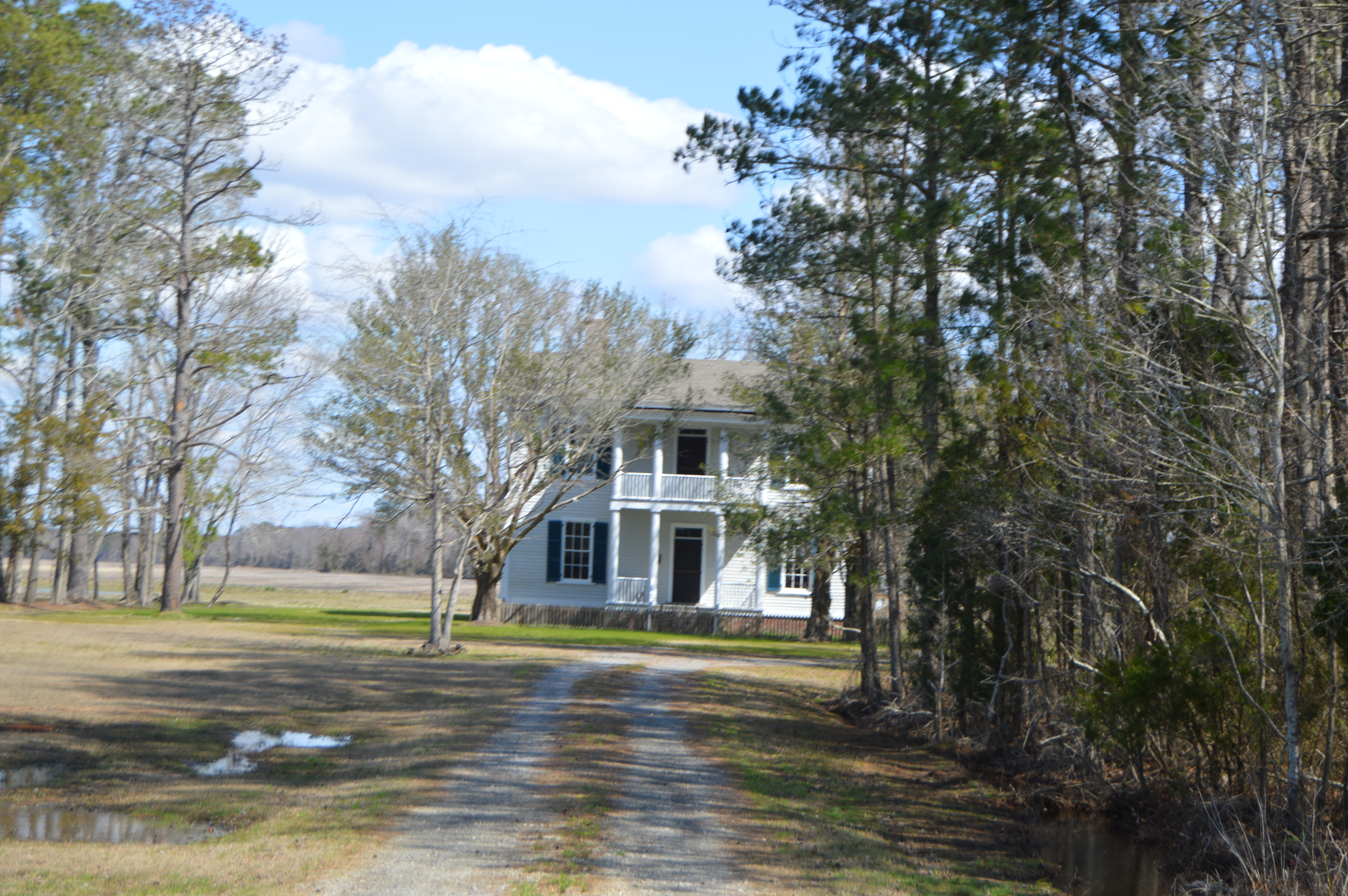 Driveway view of the George V. Credle House, located along U.S. Route 264 northwest of Swan Quarter in Hyde County, North Carolina, United States. Built in 1852, it is listed on the National Register of Historic Places.